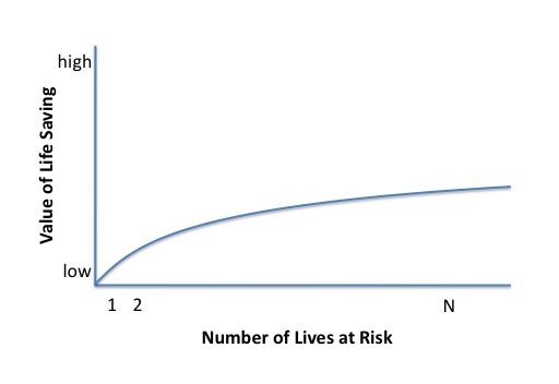 this is a graph of the value of saving a human life. It is my own work, it is derived from a Paul Slovic article regarding Psychc Numbing